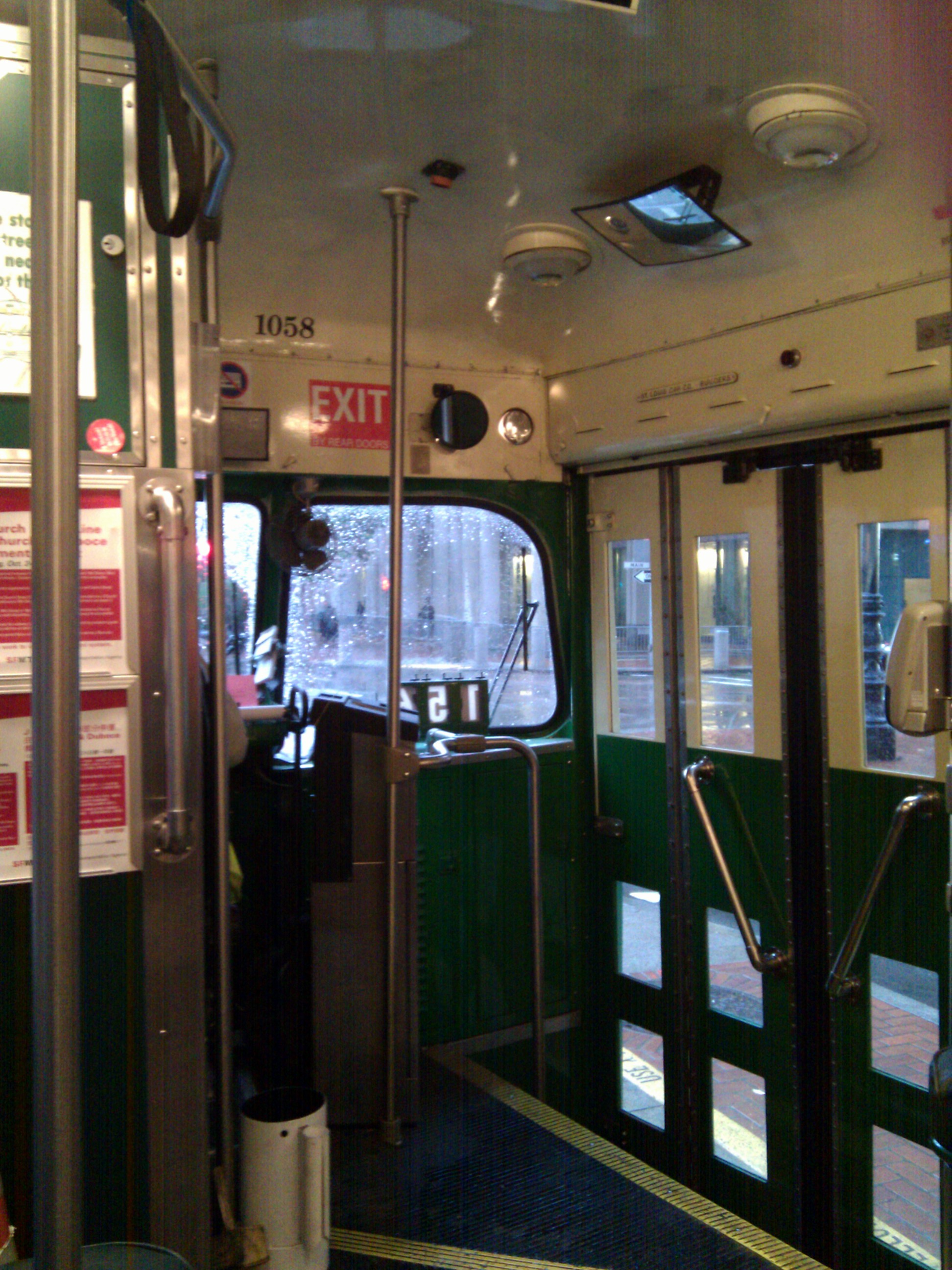 On the 1058 Chicago